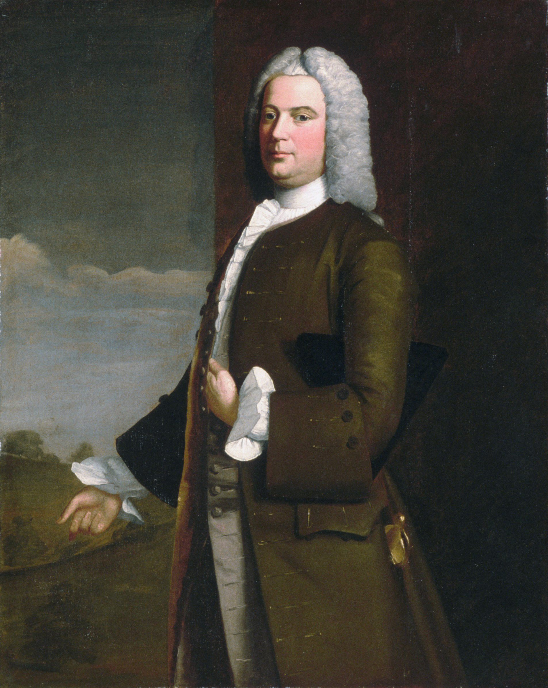 Tench Francis oil on canvas 124.5 x 99.1 cm signed l.r.: R. Feke / Pinx 1746